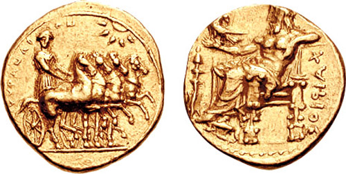 Coin of the Cyrenaica, about 322-313 BC